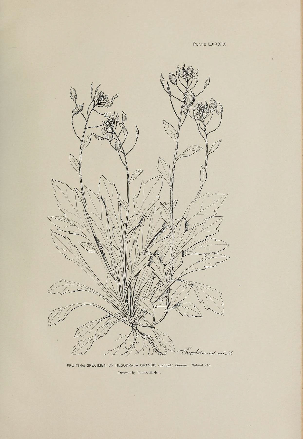 Plate LXXXIX. OtcC ^rucT.t/zi FRUITING SPECIMEN OF NESODRABA GRANDIS (Langsd.) Greene. Natural size. Drawn by Then. Holm.